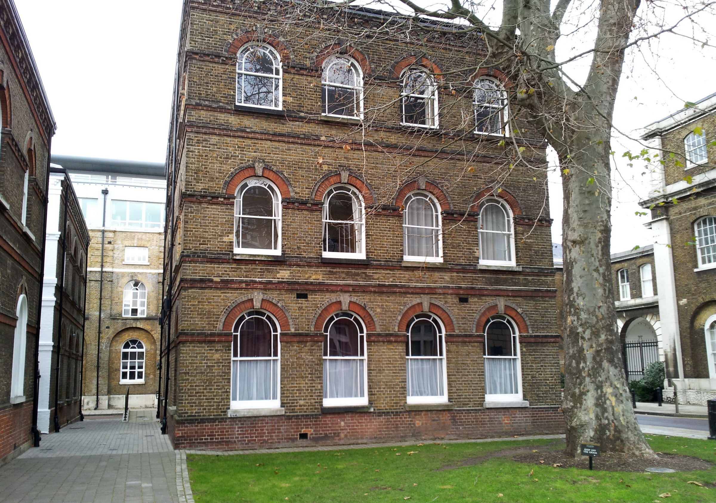 View from Carriage Street of Building 21 in Royal Arsenal, Woolwich, South East London.